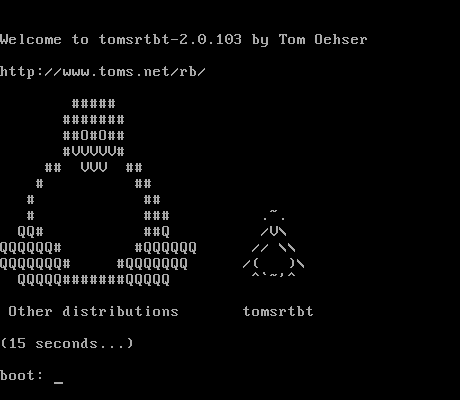 Screenshot of Tom's Root Boot (tomsrtbt) bootloader.